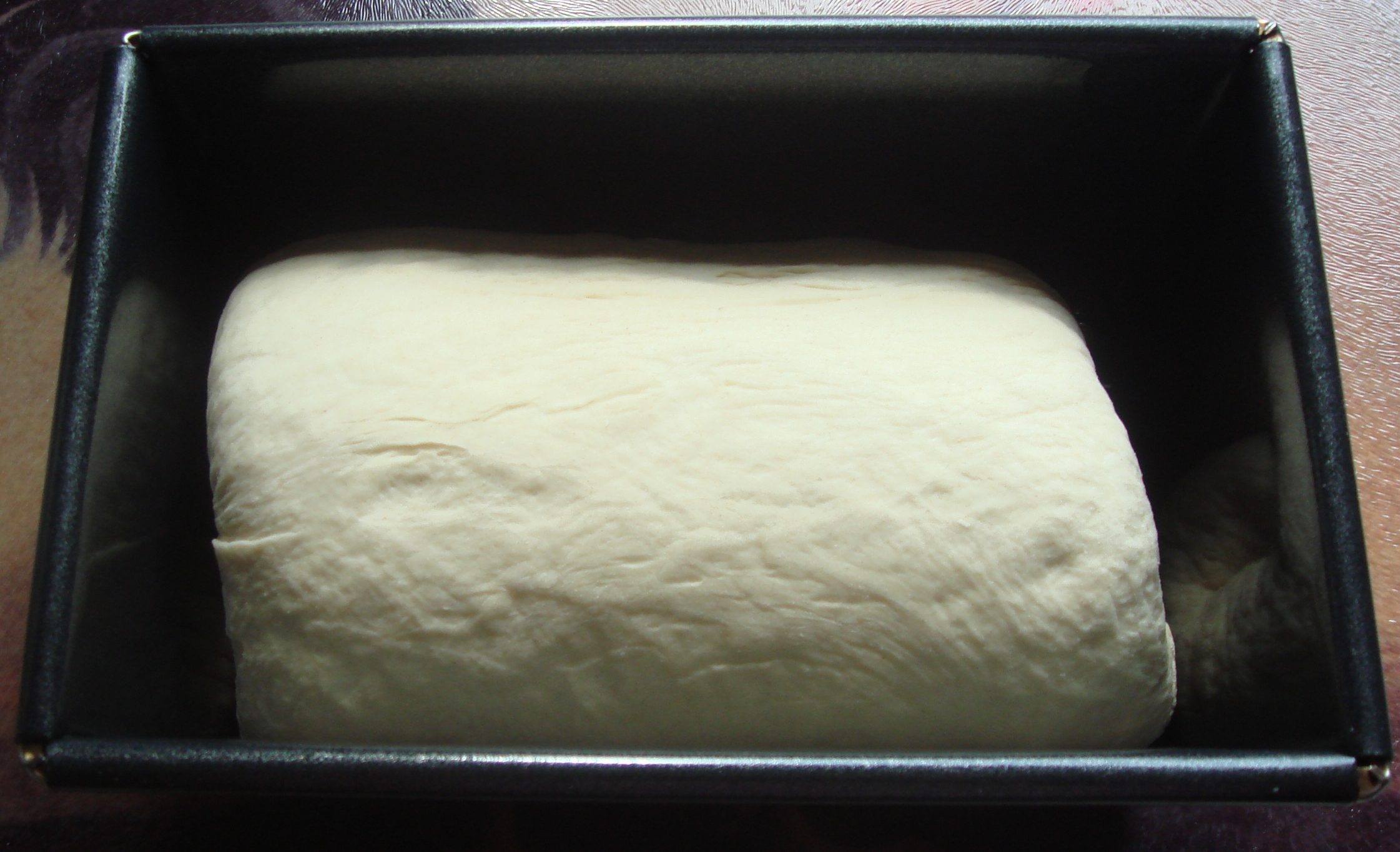 Bread dough in tin. Needs to rise before going in oven.